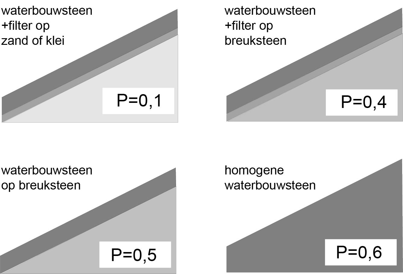 Notional Permeability according to Van der Meer (1988), as used in the stability formula